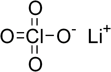 chemical structure of lithium perchlorate